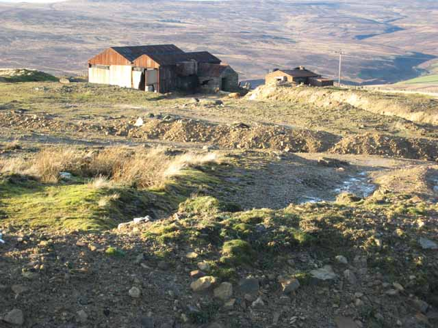 Weatherhill Engine House This derelict building contained the winding engine at the top of the Crawleyside Incline above Stanhope; one of various incline railways in upper Weardale built in the 19th century to serve the lead and iron ore mining industries. and